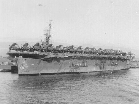 The U.S. Navy escort carrier USS Bougainville (CVE-100) at Pearl Harbor, circa 1945.